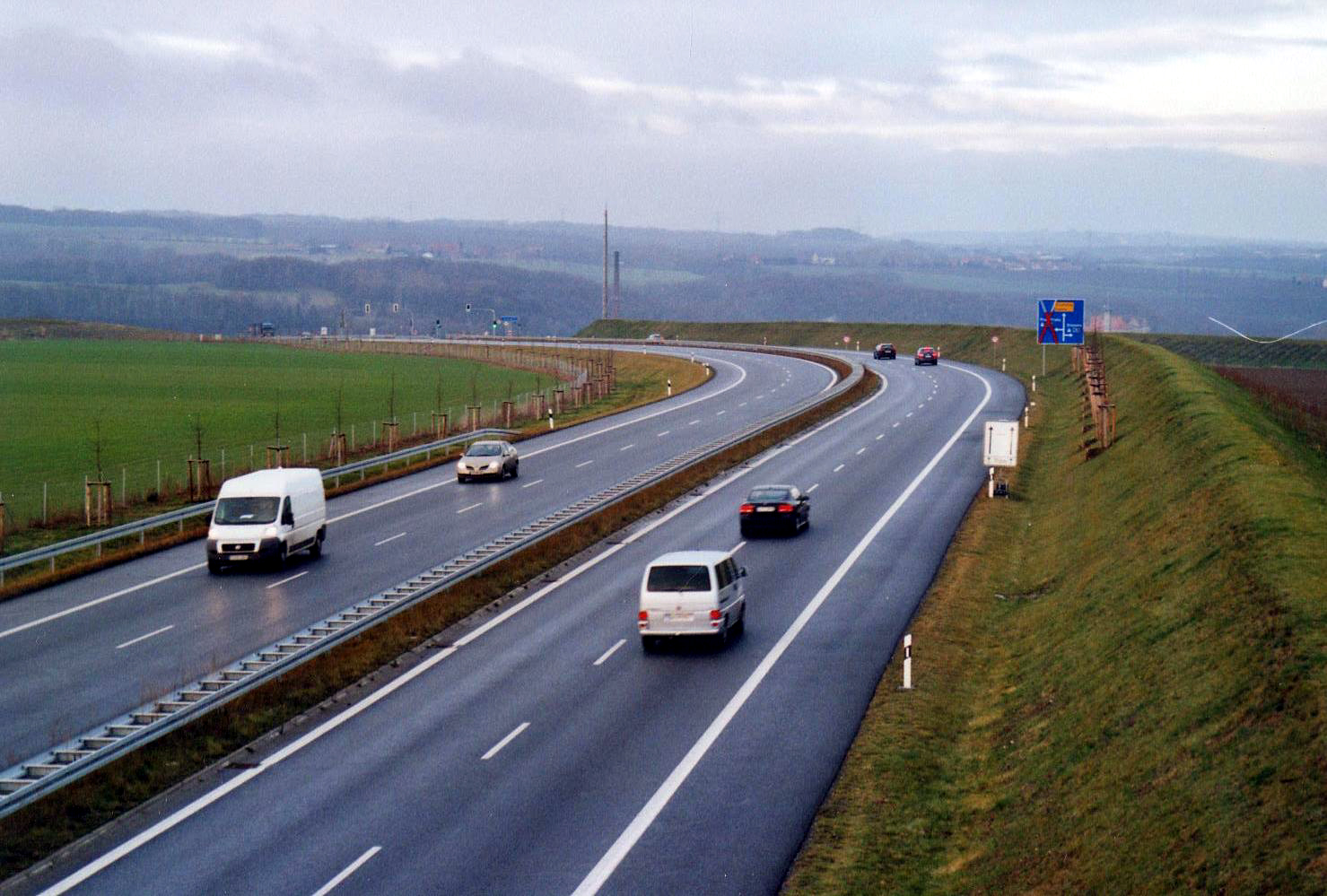 This image shows the federal highway 172a near the autobahn-junction Pirna in Saxony, Germany.